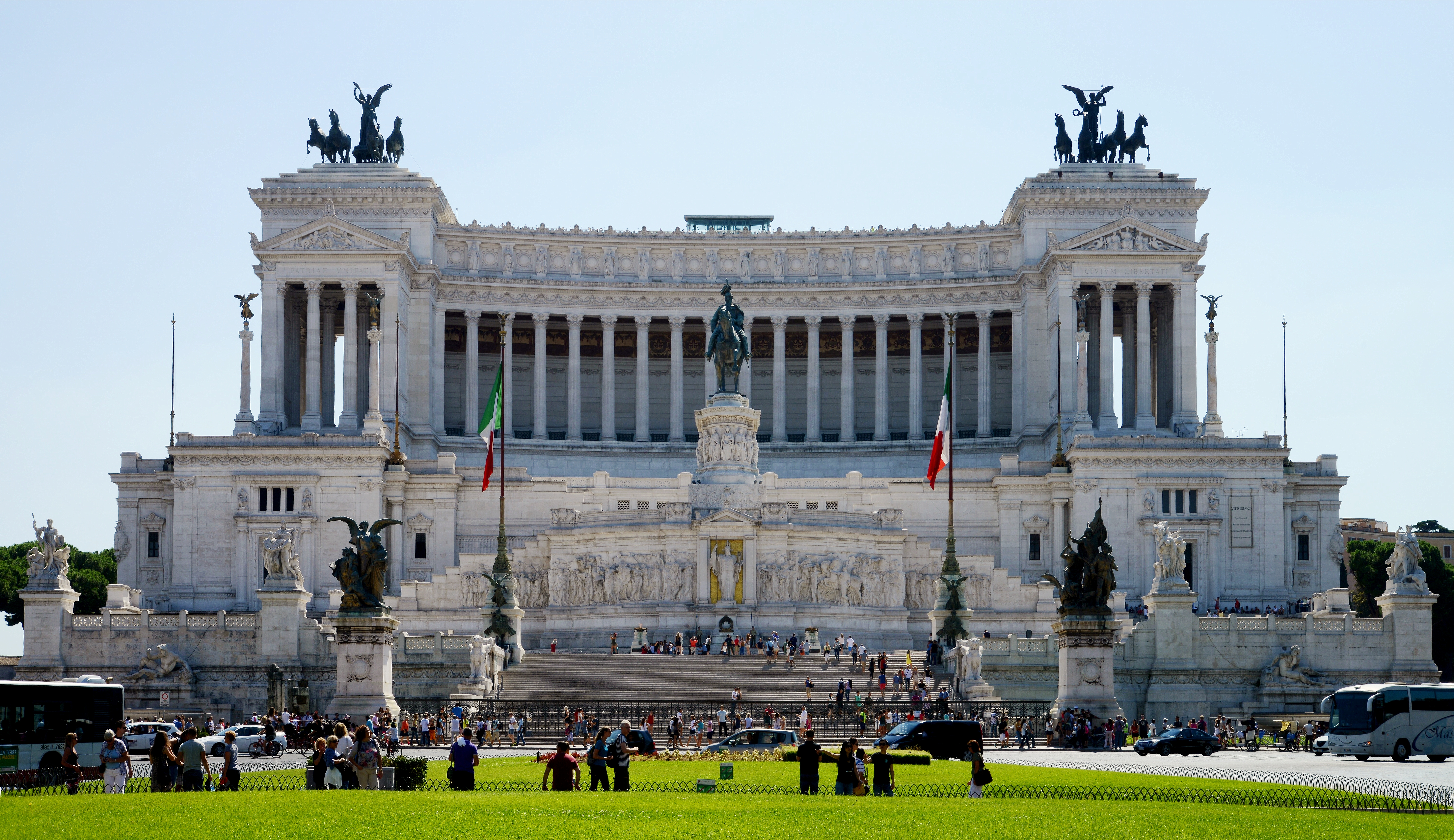 The Altare della Patria, a monument to Vittorio Emanuele II, Rome